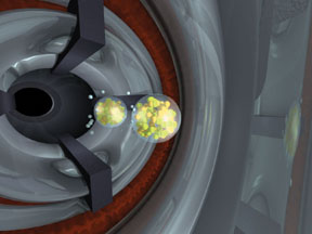 Scientists at doe's lawrence livermore national laboratory, in collaboration with researchers from the joint institute of nuclear research (jinr)in russia, have discovered the two newest super-heavy elements, element 113 and element 115. In these decay chains, element 113 is produced via the alpha decay of element 115. The experiments produced four atoms each of the two elements through the fusion reaction of calcium-48 nuclei impinging on an americium-243 target. Licensing This image is a work of a United States Department of Energy (or predecessor organization) employee, taken or made as part of that person's official duties. As a work of the U.S. federal government, the image is in the public domain. Please note that national laboratories operate under varying licences and some are not free. Check the site policies of any national lab before crediting it with this tag.